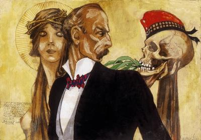 The end of the War